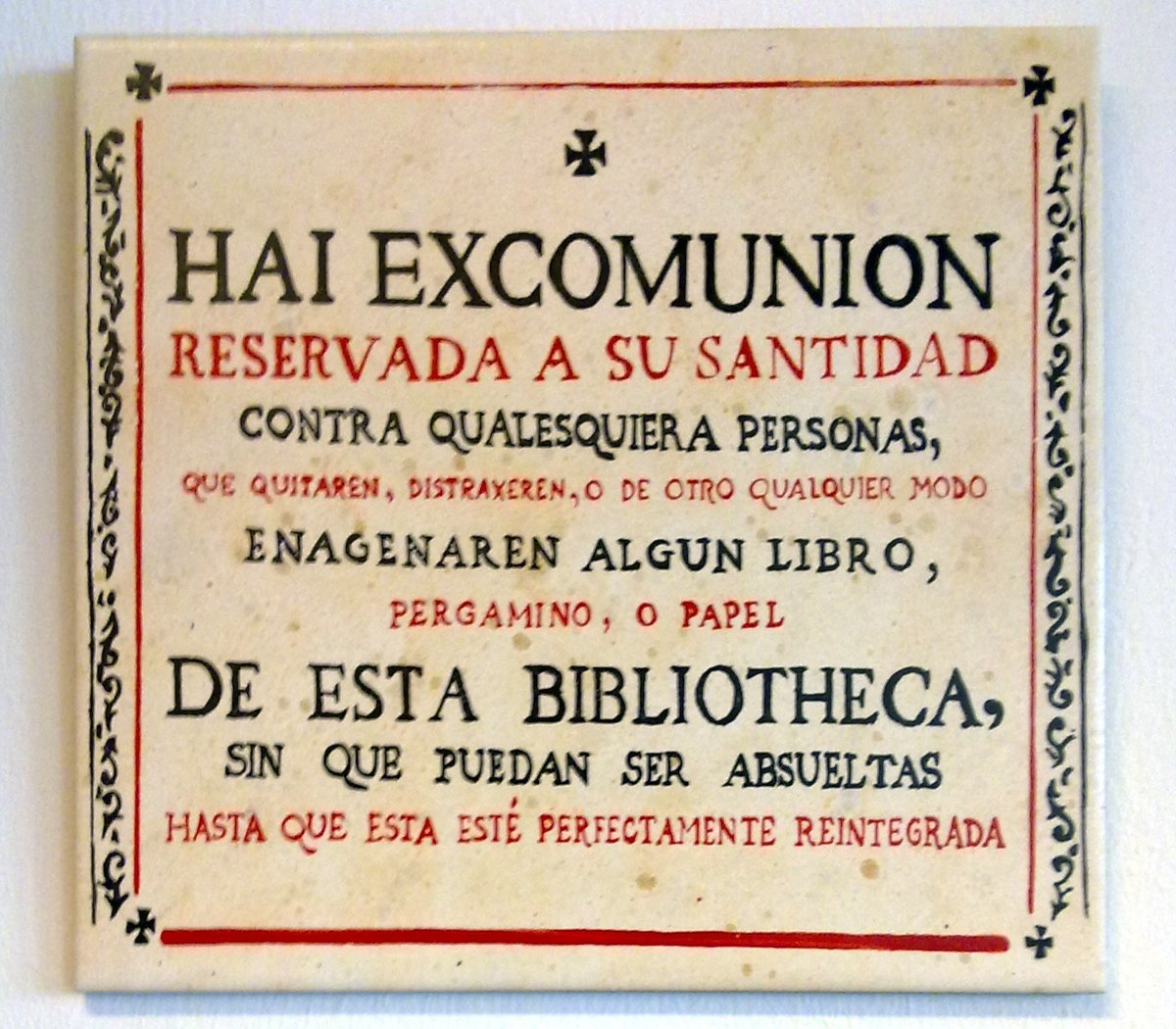 reprduction of a plaque in the library of the university of Salamanca (Spain) with the following inscription: HAI EXCOMUNION / RESERVADA A SU SANTIDAD / CONTRA QUALESQUIERA PERSONAS, / QUE QUITAREN, DISTRAEXEREN, O DE QUALQUIER MODO / ENAGENAREN ALGUN LIBRO, / PERGAMINO, O PAPEL / DE ESTA BIBLIOTHECA, / SIN QUE PUEDAN SER ABSUELTAS / HASTA QUE ESTA ESTÉ PERFECTAMENTE REINTEGRADA translation to